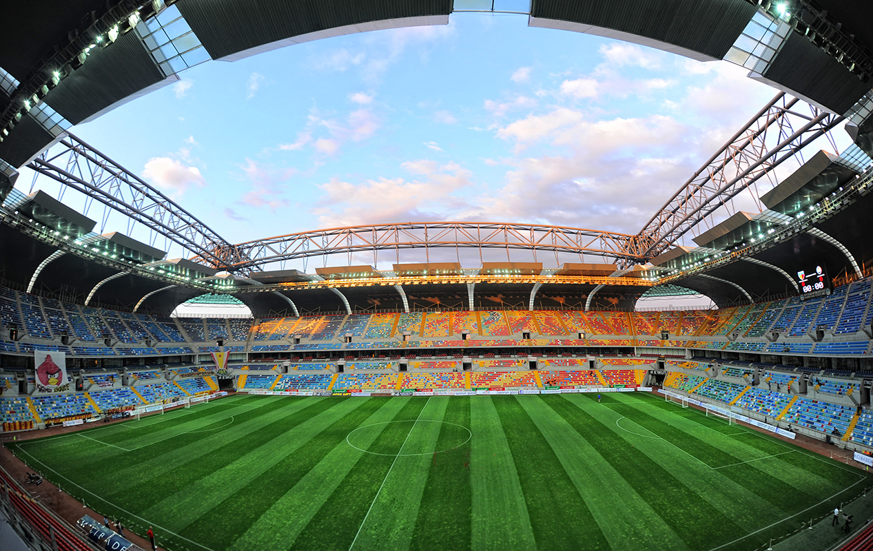 Kadir Has Stadium in Kayseri, Turkey